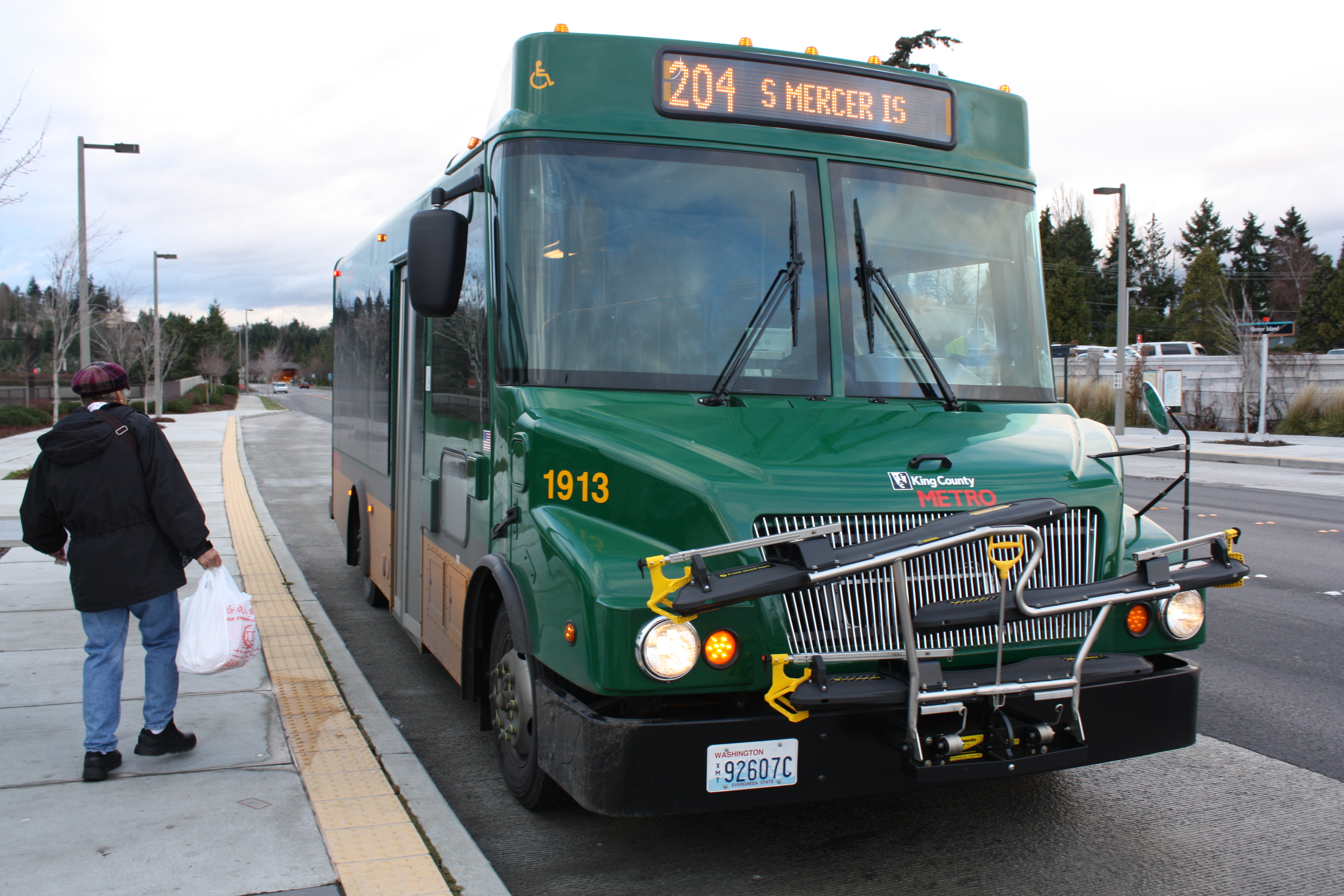 King County Metro Transit StarTrans President LF on a Workhorse LF72 chassis.